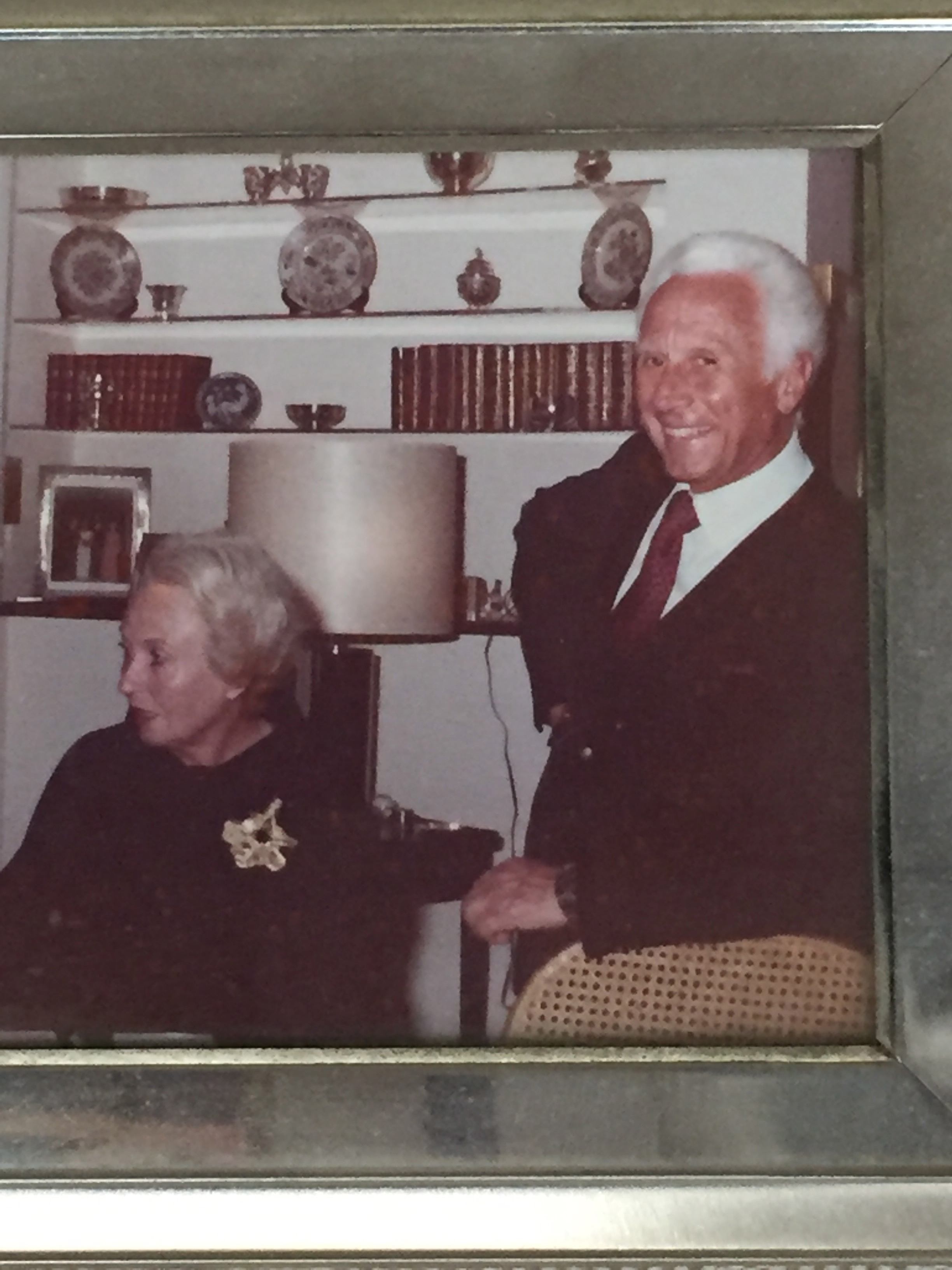 Portrait photo of Eva Sonnino and Dino Sonnino